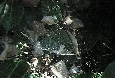 web of Cyrtophora exanthematica from Okinawa.